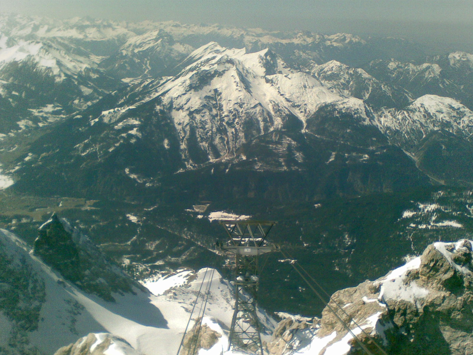 A view from the top of Germany's highest mountain, Zugspitze, looking down towards Austria.